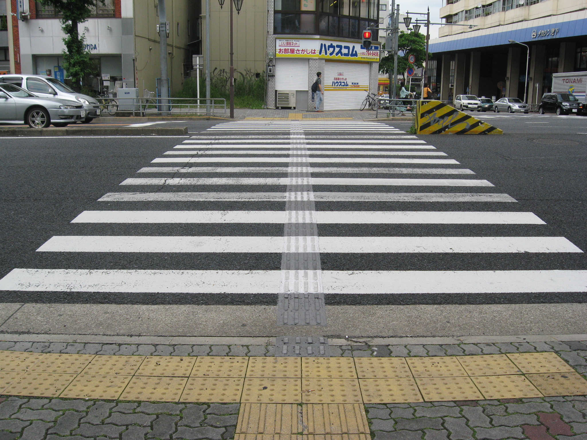 Pedestrian Crossing with Textured Paving Blocks (at Ikeshita Station in Nagoya, Japan)